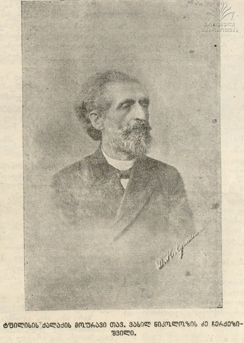 Vasil Cherqezishvili